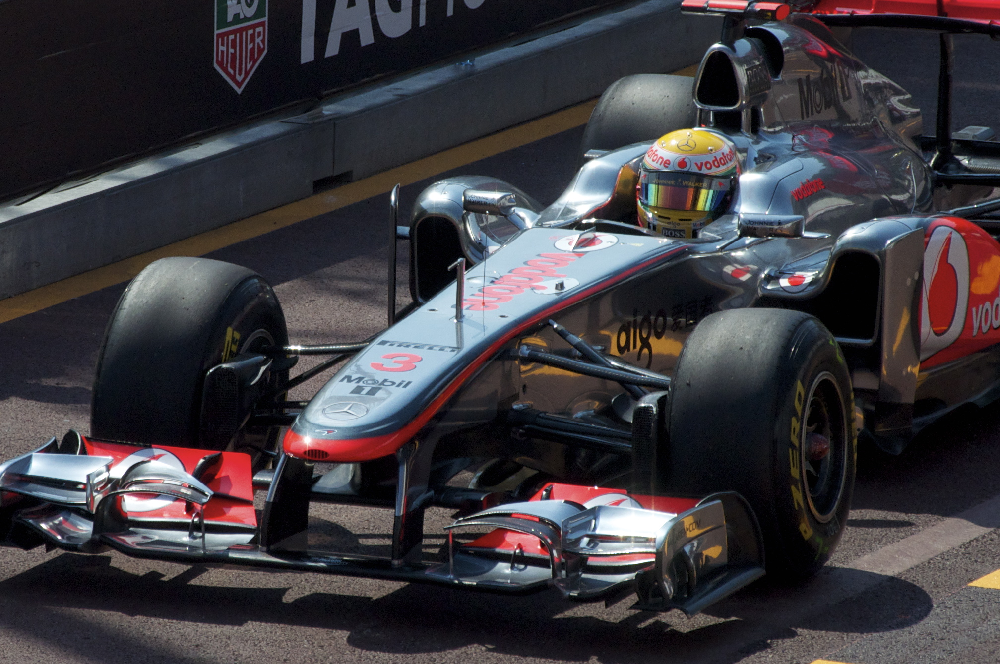 Monaco Grand Prix 2011